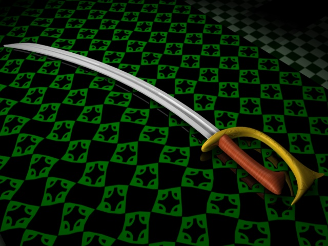 Combat tank graphics description